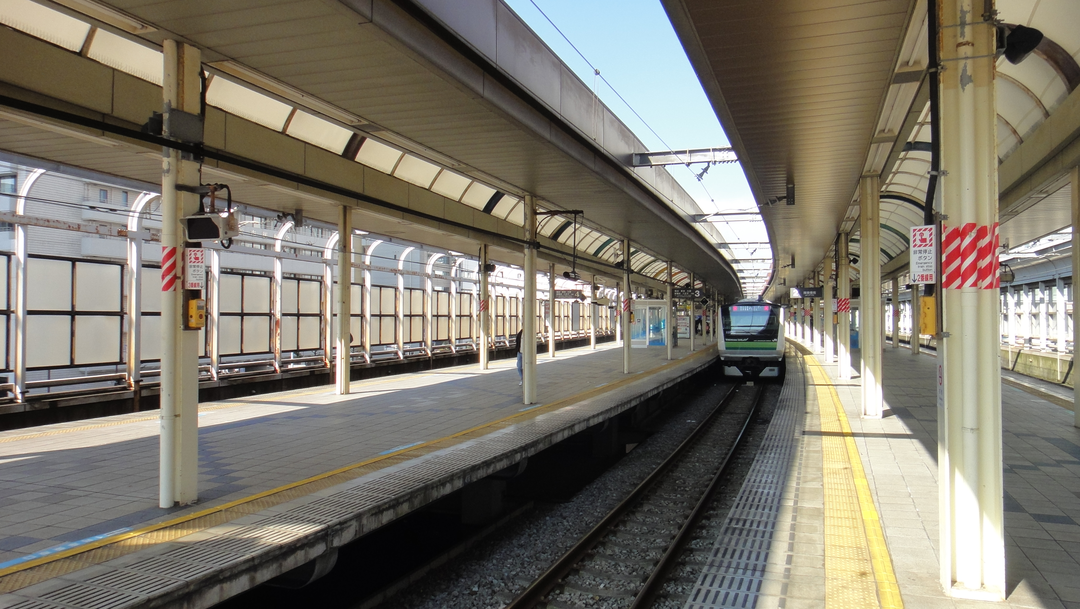 Sakuragicho Station, looking north from the south end of platforms 1 and 2, with a Yokohama Line E233-6000 series EMU awaiting departure from platform 3